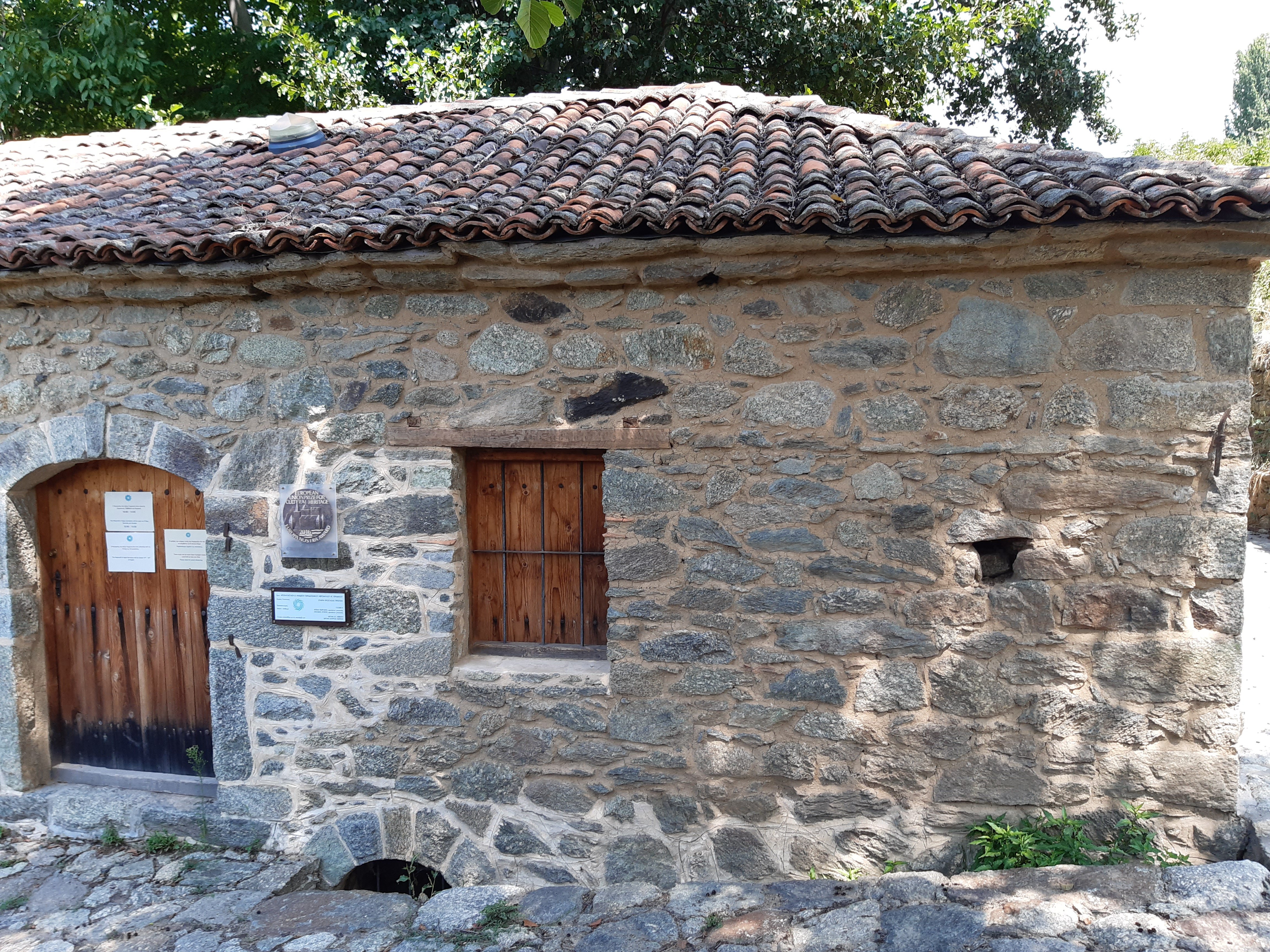 Agios Germanos Water Mill